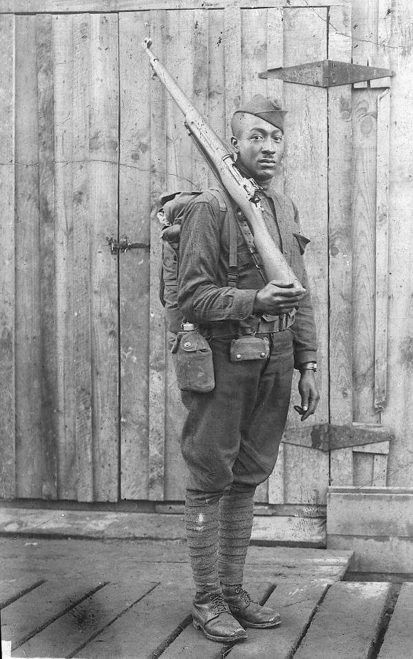 Persistent URL: Local call number: n049087 Title: Mitchell Evans in WWI uniform Date: ca. 1918 Physical descrip: 1 photonegative - b&w - 5 x 4 in. Series Title: General Collections Repository: State Library and Archives of Florida 500 S. Bronough St., Tallahassee, FL, 32399-0250 USA, Contact: 850.245.6700